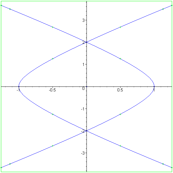 PNG of dual curve to the Lemniscate of Gerono, created by me User:Gene Ward Smith and released to the public domain.